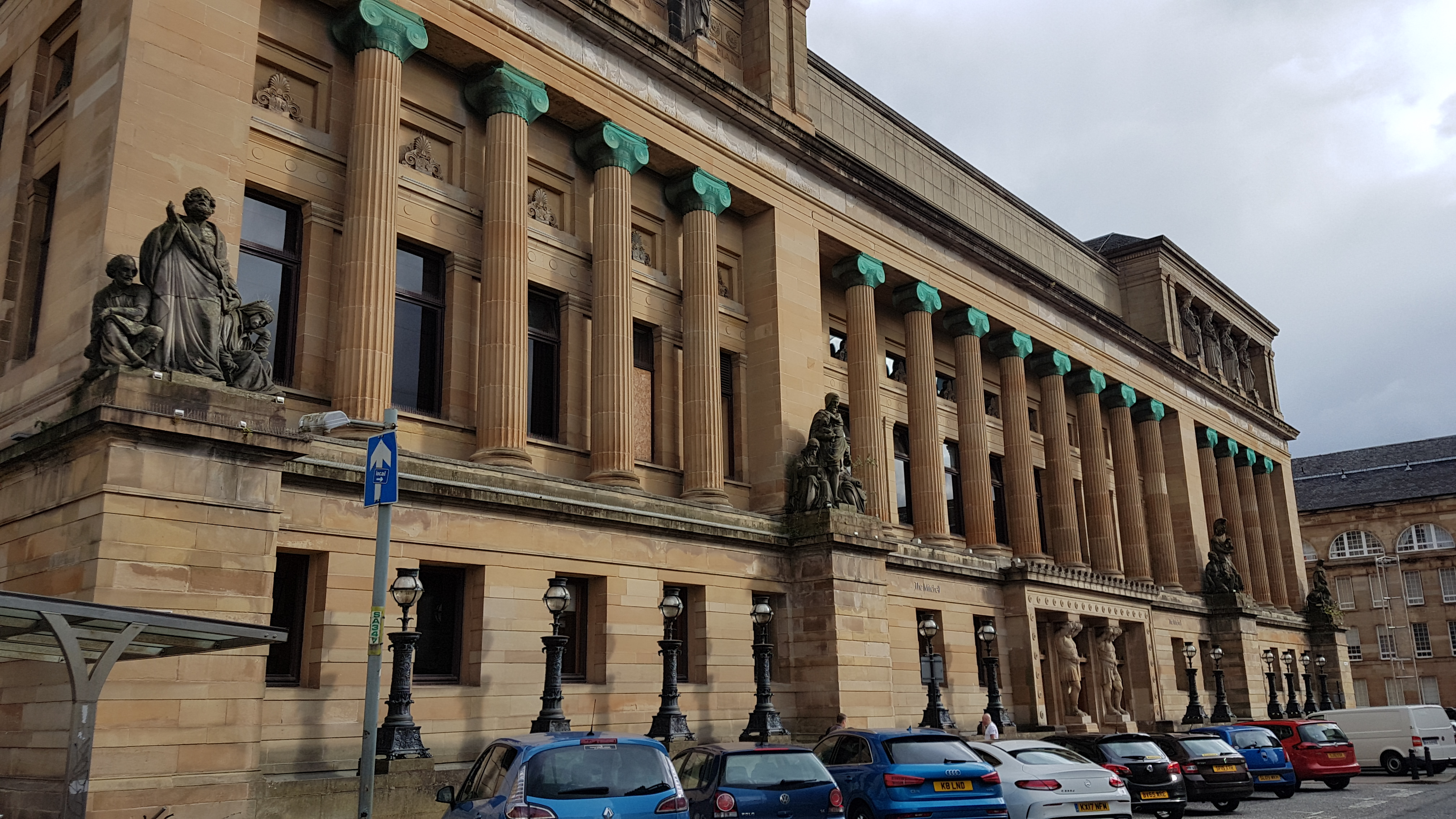 201 North Street, Mitchell Library Wikidata has entry Q17807319 with data related to this item.